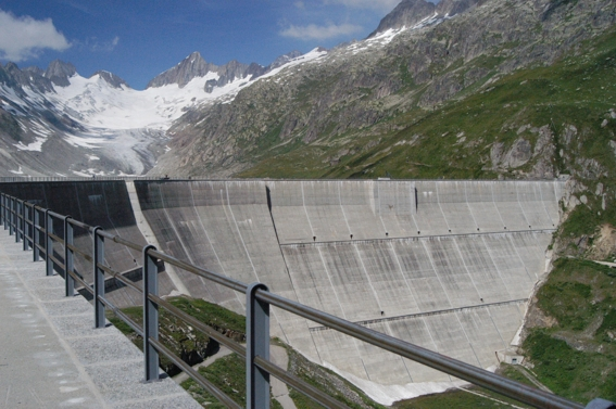 Oberaarwall at Grimselpass, You can always get a copy in bigger solution at .